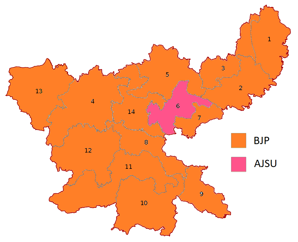 Seat Sharing among NDA partners in Jharkhand colour coded